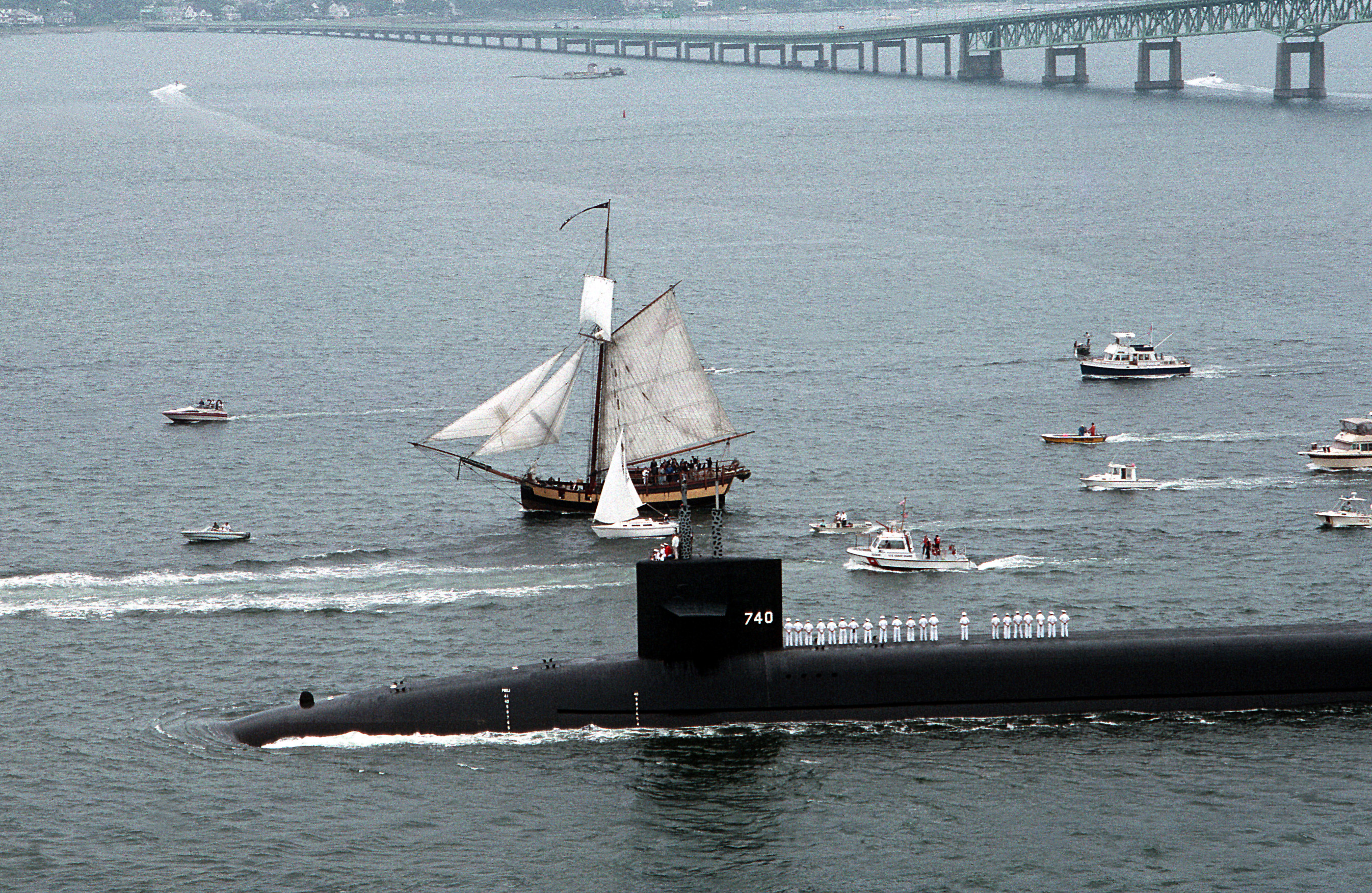 ID: DN-ST-95-00531 Service Depicted: Navy A port side view of the fore section of the nuclear-powered ballistic missile submarine USS RHODE ISLAND (SSBN-740) passing underneath the Pell Newport Bridge after departing Newport for builder's trails off the New England coast. A replica of John Paul Jones's Continental sloop of war Providence is Location: Narragansett Bay, Rhode Island (RI) UNITED STATES OF AMERICA (USA)